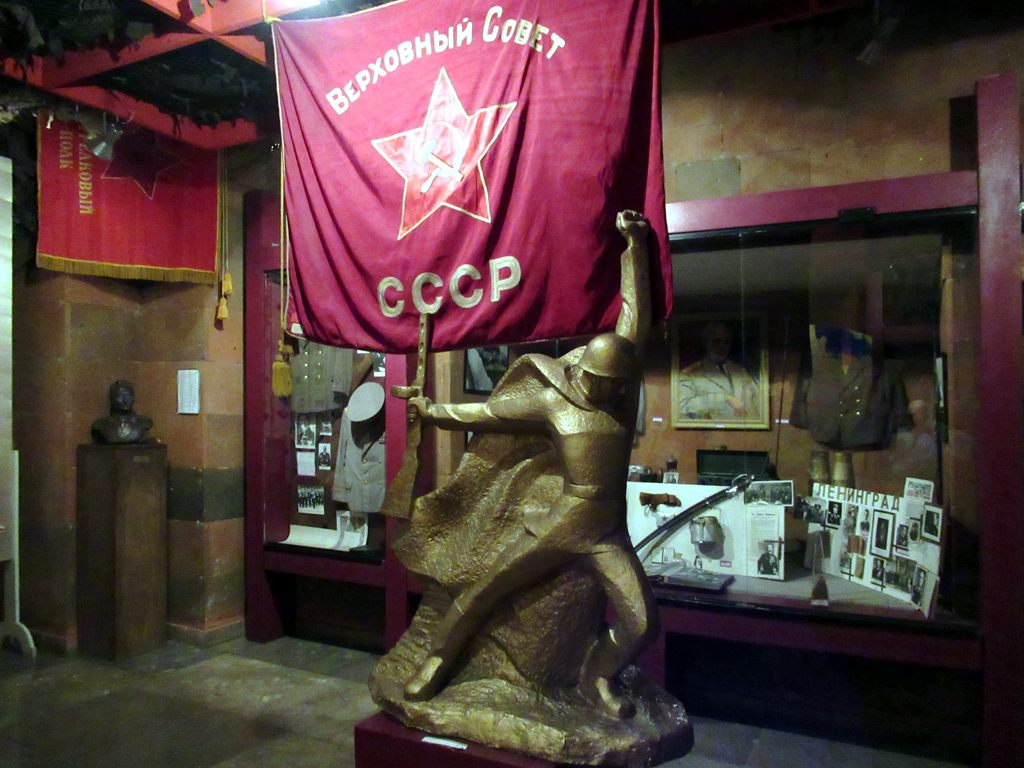 The USSR's role in World War Two is highlighted in the Mother Armenia War Museum on a hilltop overlooking Yerevan, Armenia.